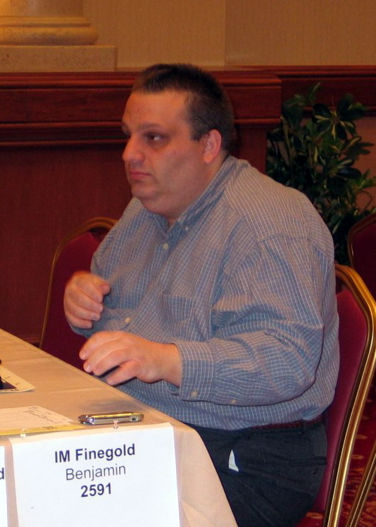 IM Ben Finegold, Las Vegas 2009